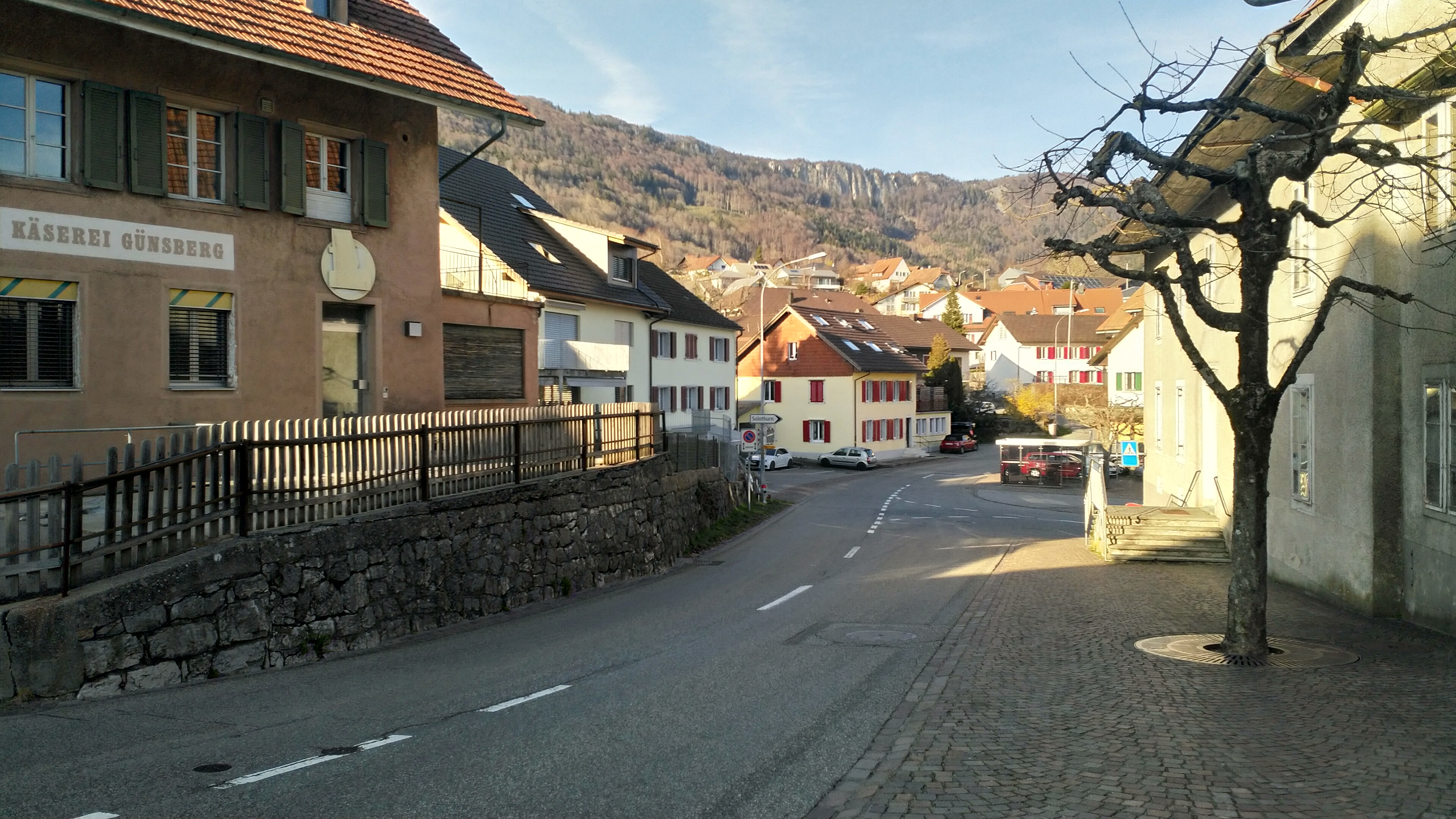 Centre of the village of Günsberg, canton of Solothurn, Switzerland